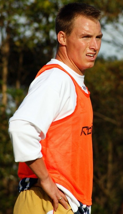 Jesper Hakansson at Newcastle Jets training